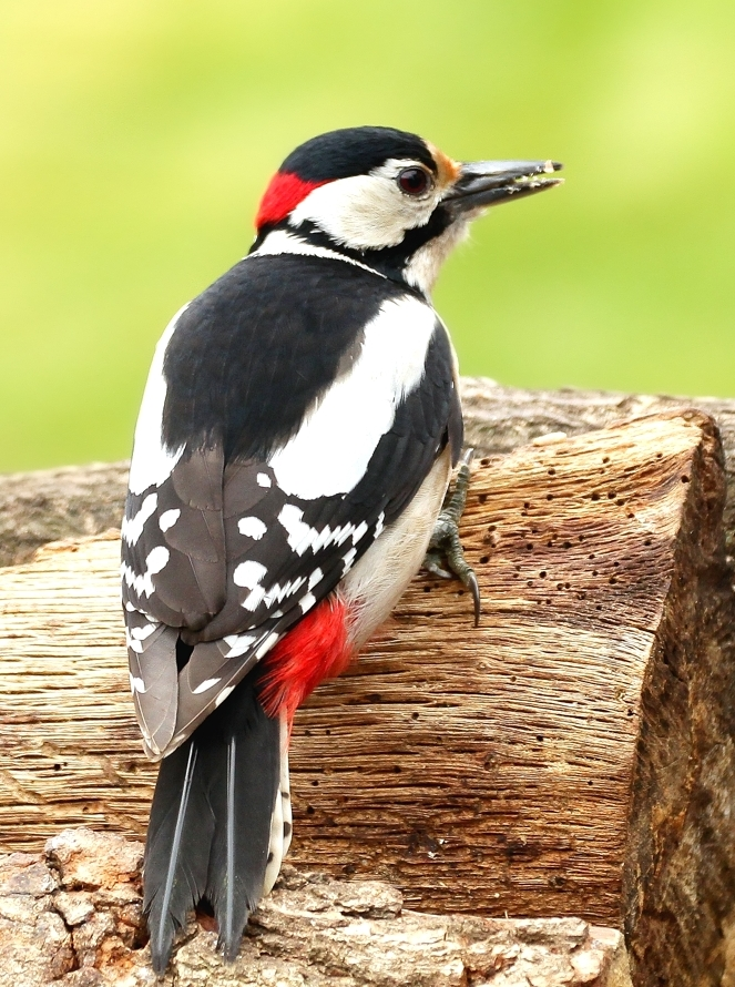 Great spotted woodpecker